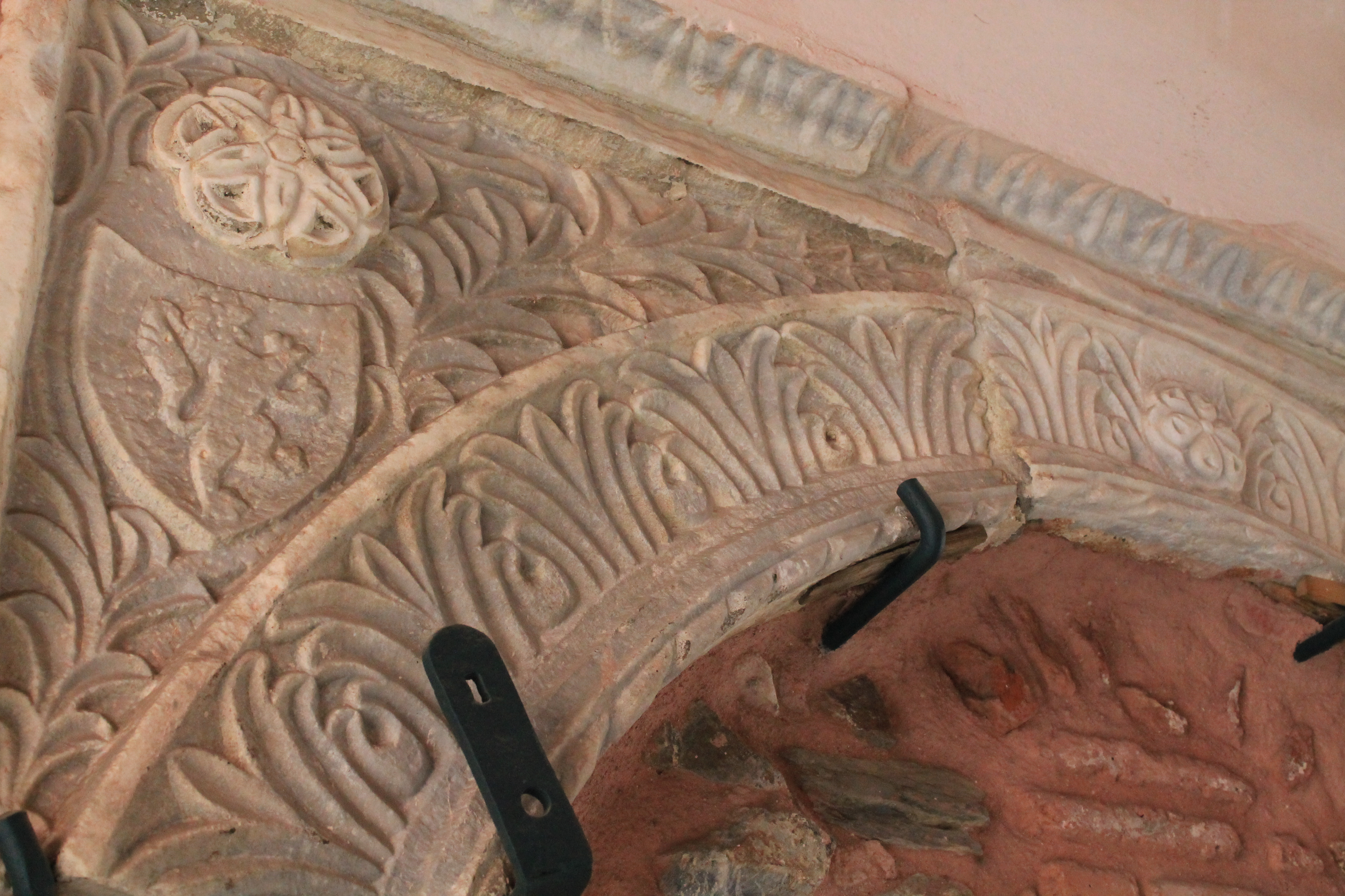 Relief of coat of arms, Arab Mosque, Istanbul.